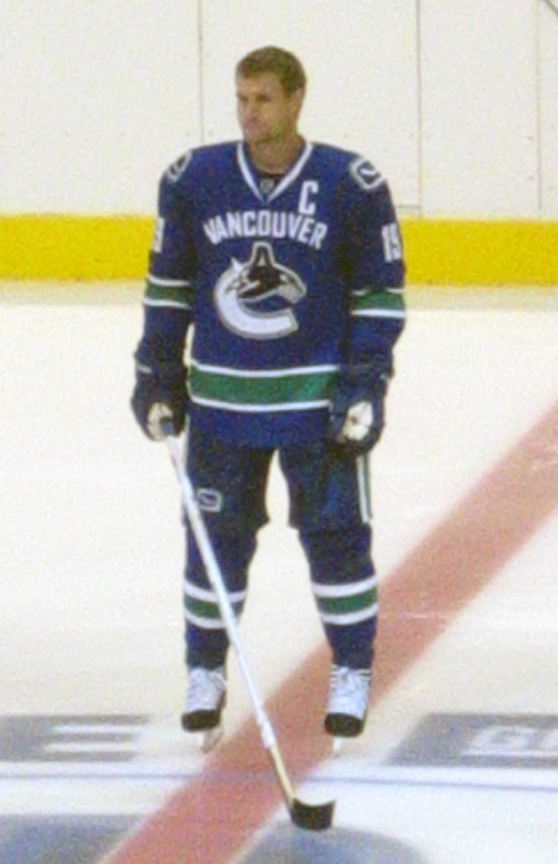 Markus Naslund of the Vancouver Canucks. Vancouver, BC, Canada